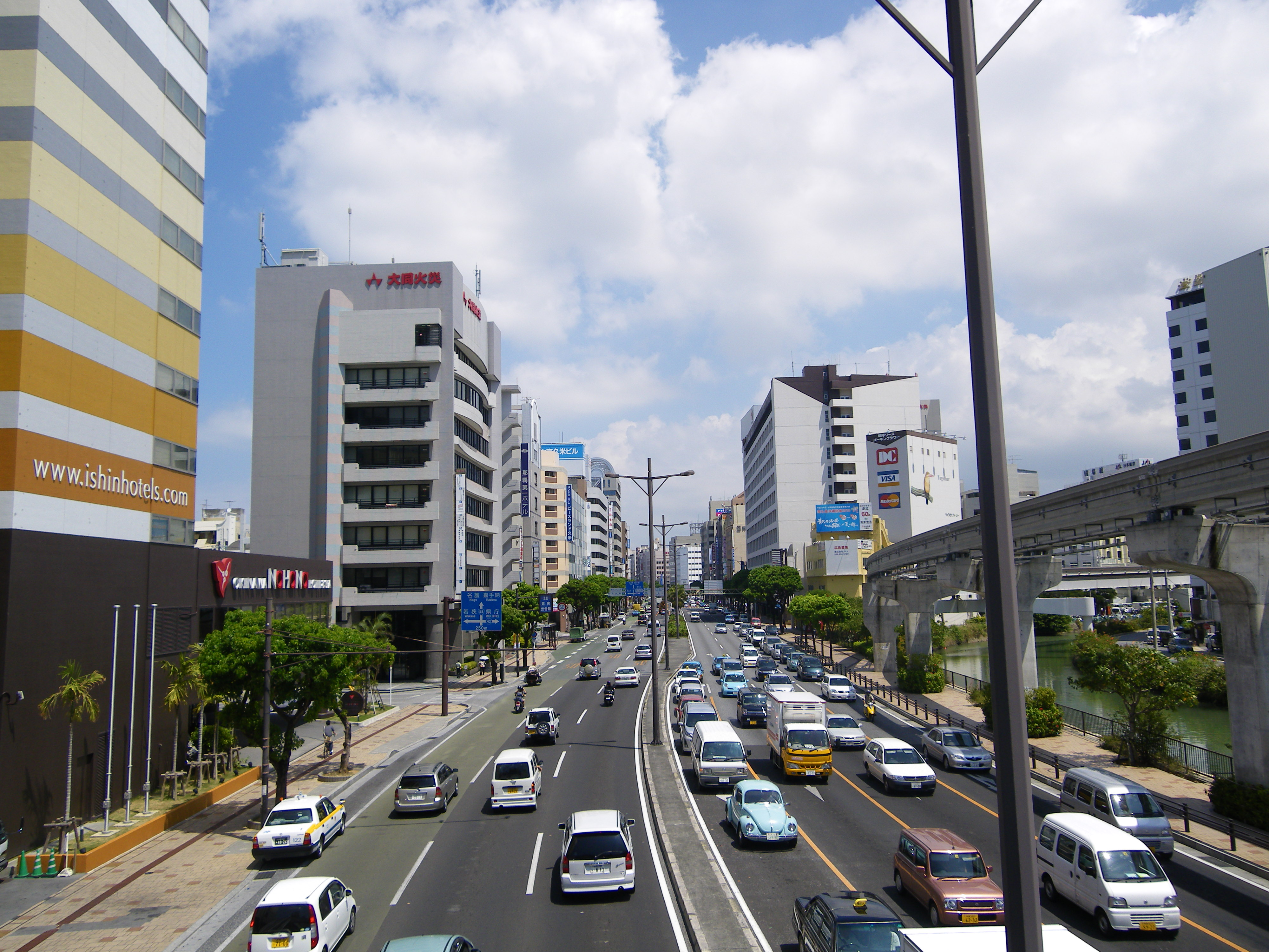 The streetscape of Japan National Route 58 in Naha City.